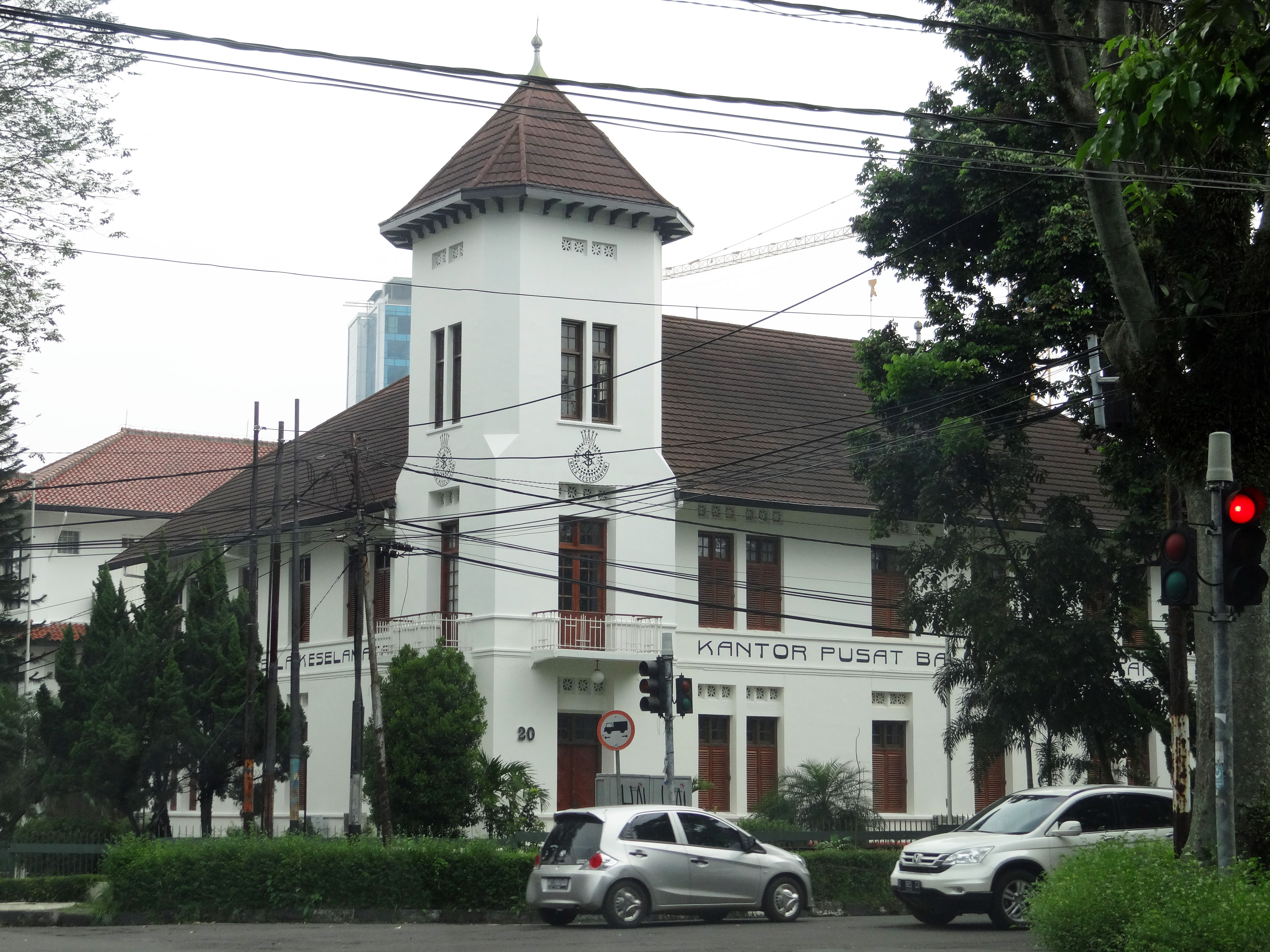 Headquarter of Indonesian Salvation Army in Bandung